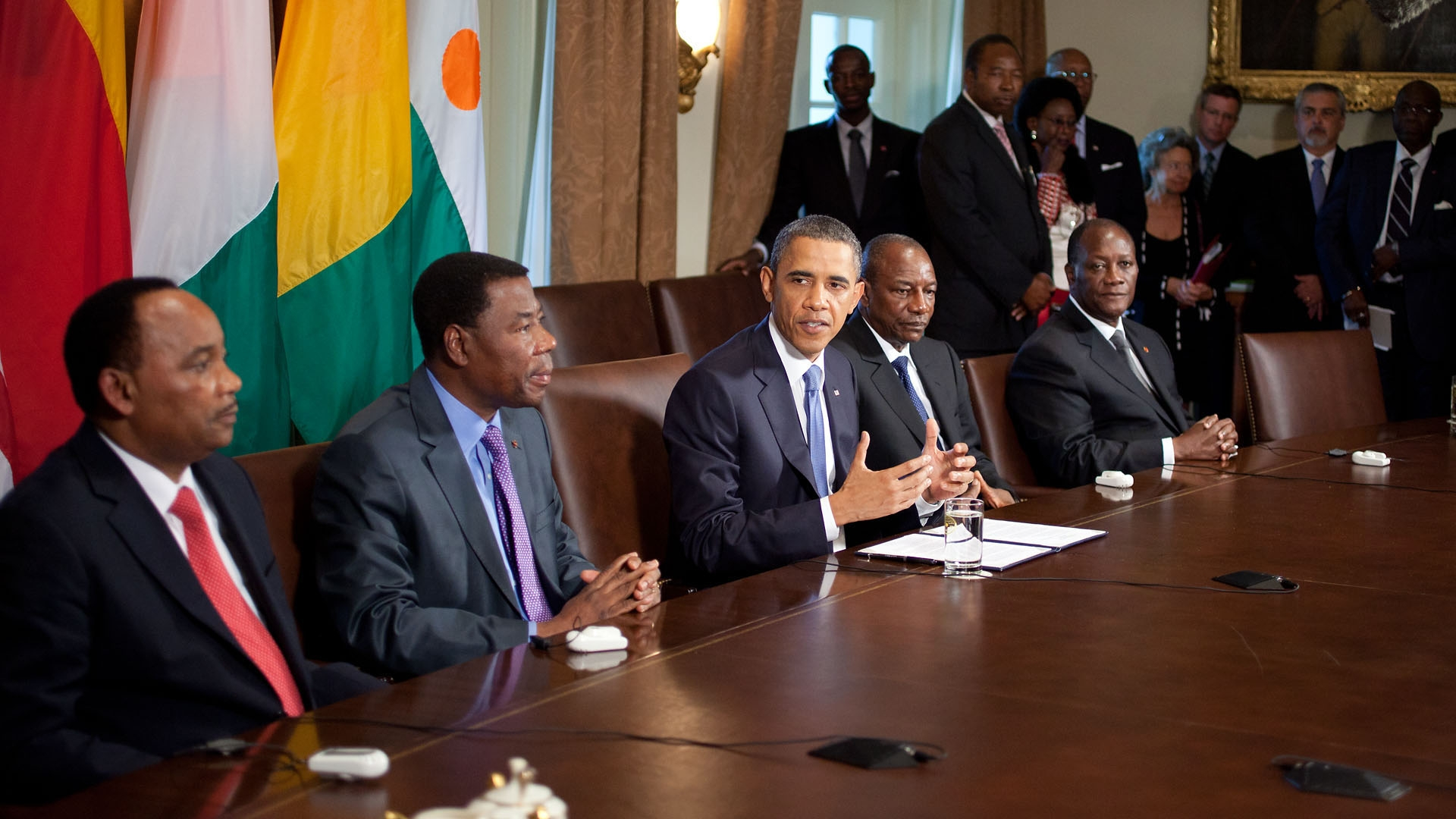 Barack Obama, president of the United States, giving a press statement after meeting with four presidents from Africa. From left to right, President Mahamadou Issoufou of Niger, President Boni Yayi of Benin, President Alpha Condé of Guinea, and President Alassane Ouattara of Cote D’Ivoire. This photo was taken in the Cabinet Room of the White House on July 29, 2011. This is an official White House photo taken by Samantha Appleton.